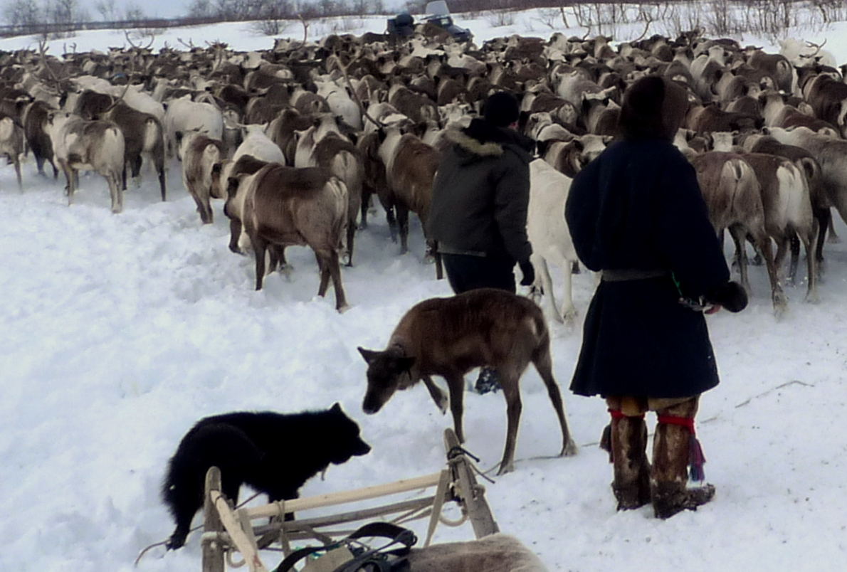 naryan mar, russia Location: Naryan-Mar.